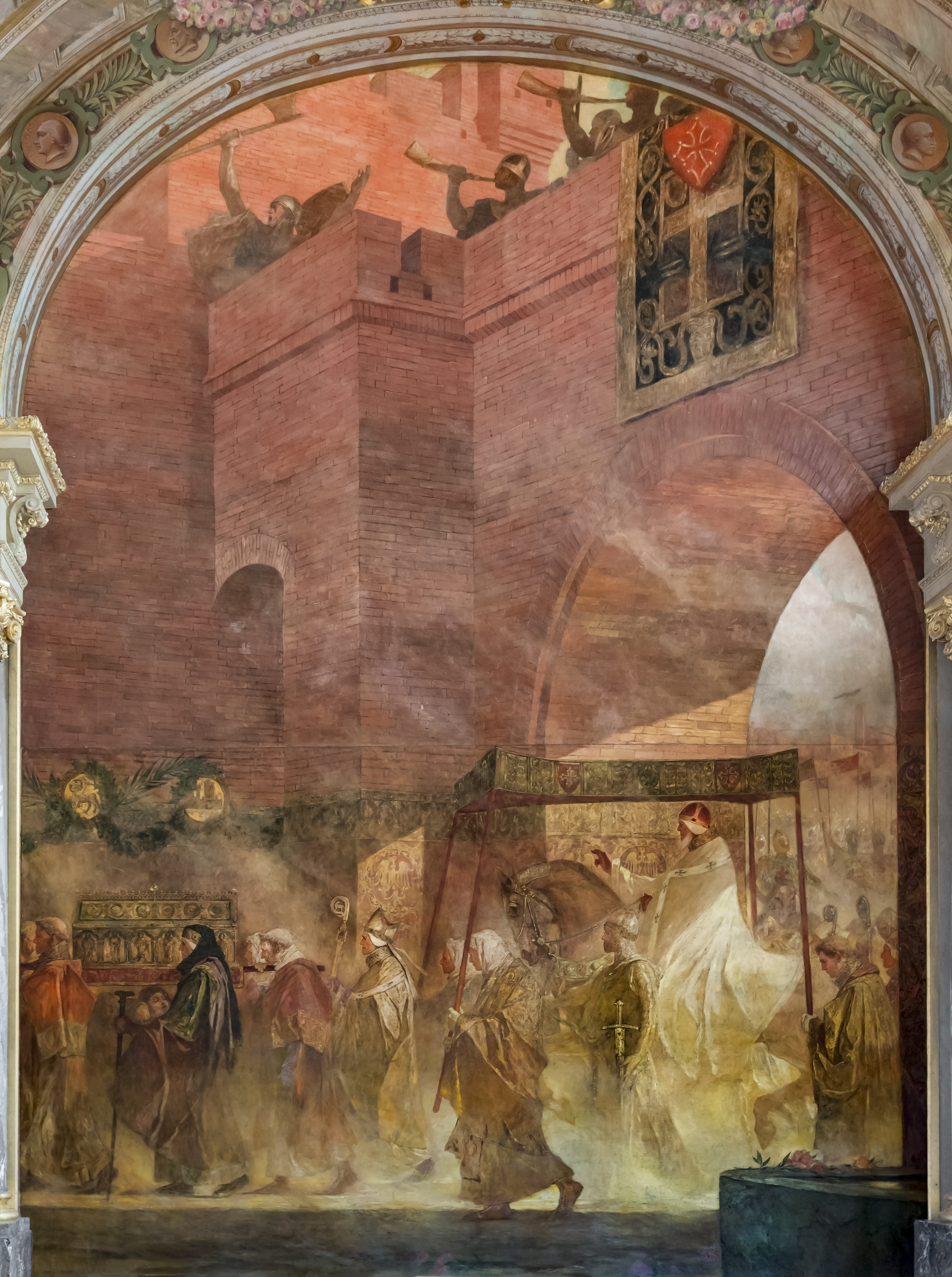 Depicted person: Urban II – 11th century pope and initiator of the Crusades